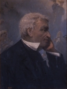 Gaetano Andreozzi